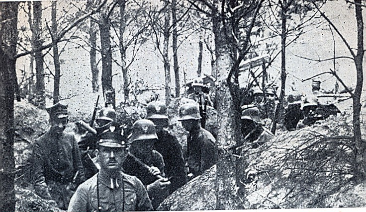 Greater Poland Uprising , Polish soldiers in the trenches on the front.